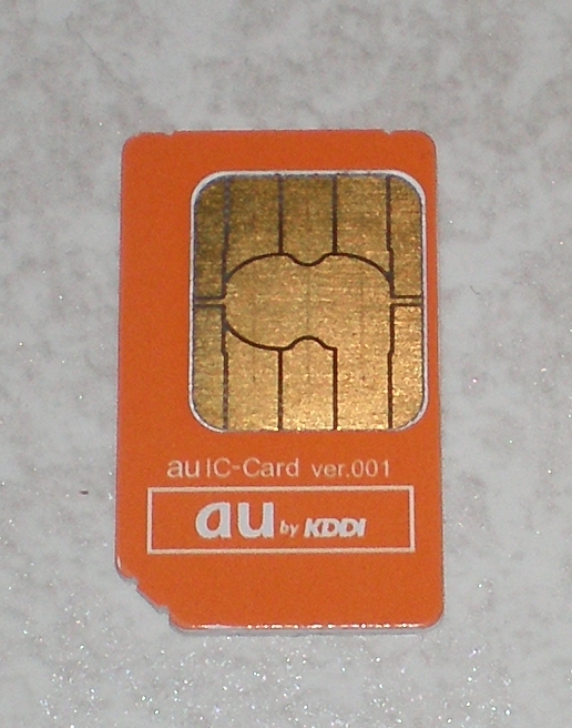 A Removable User Identity Module for KDDI Mobile Phone Service (AU).